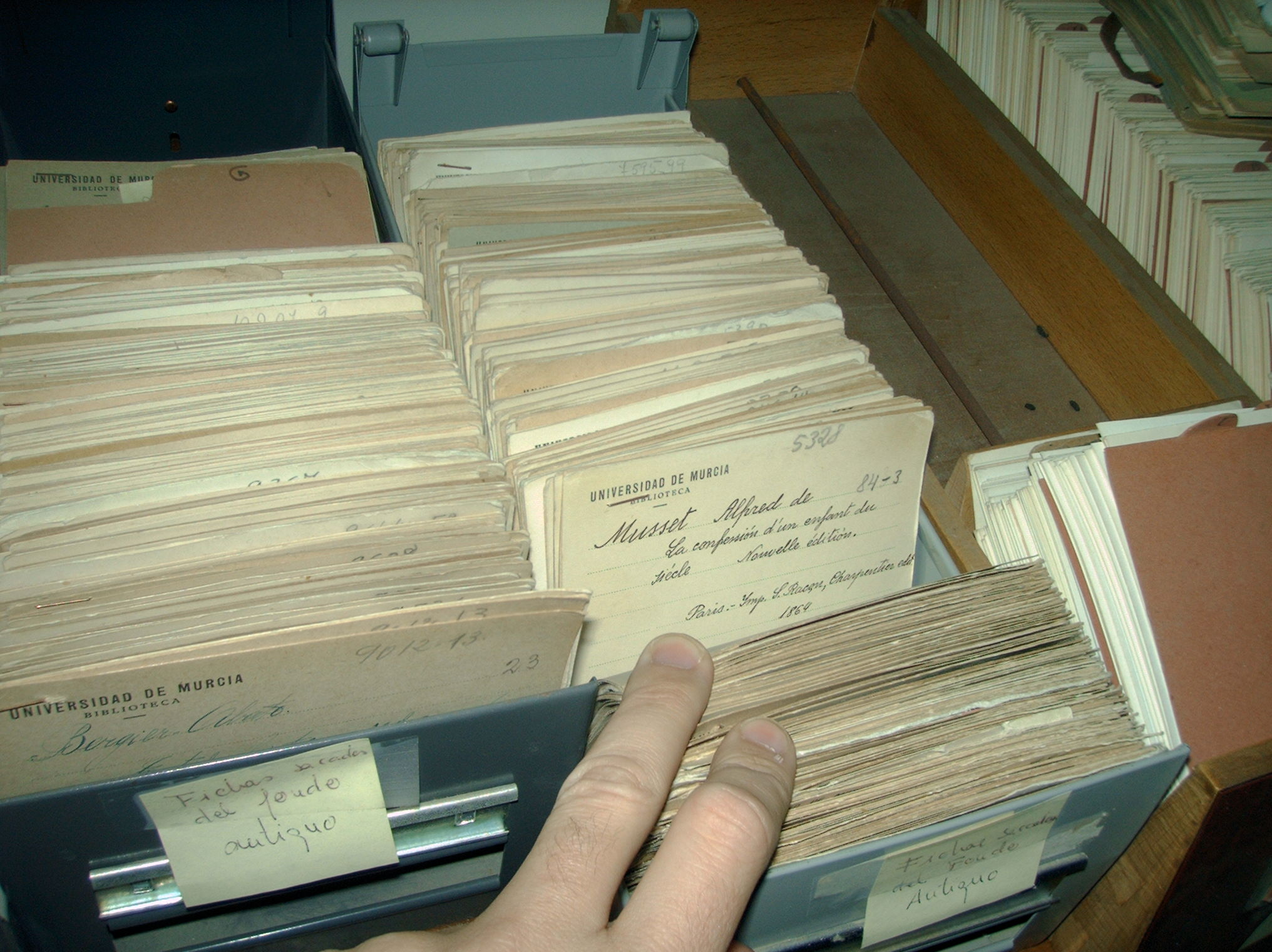 Library card catalog